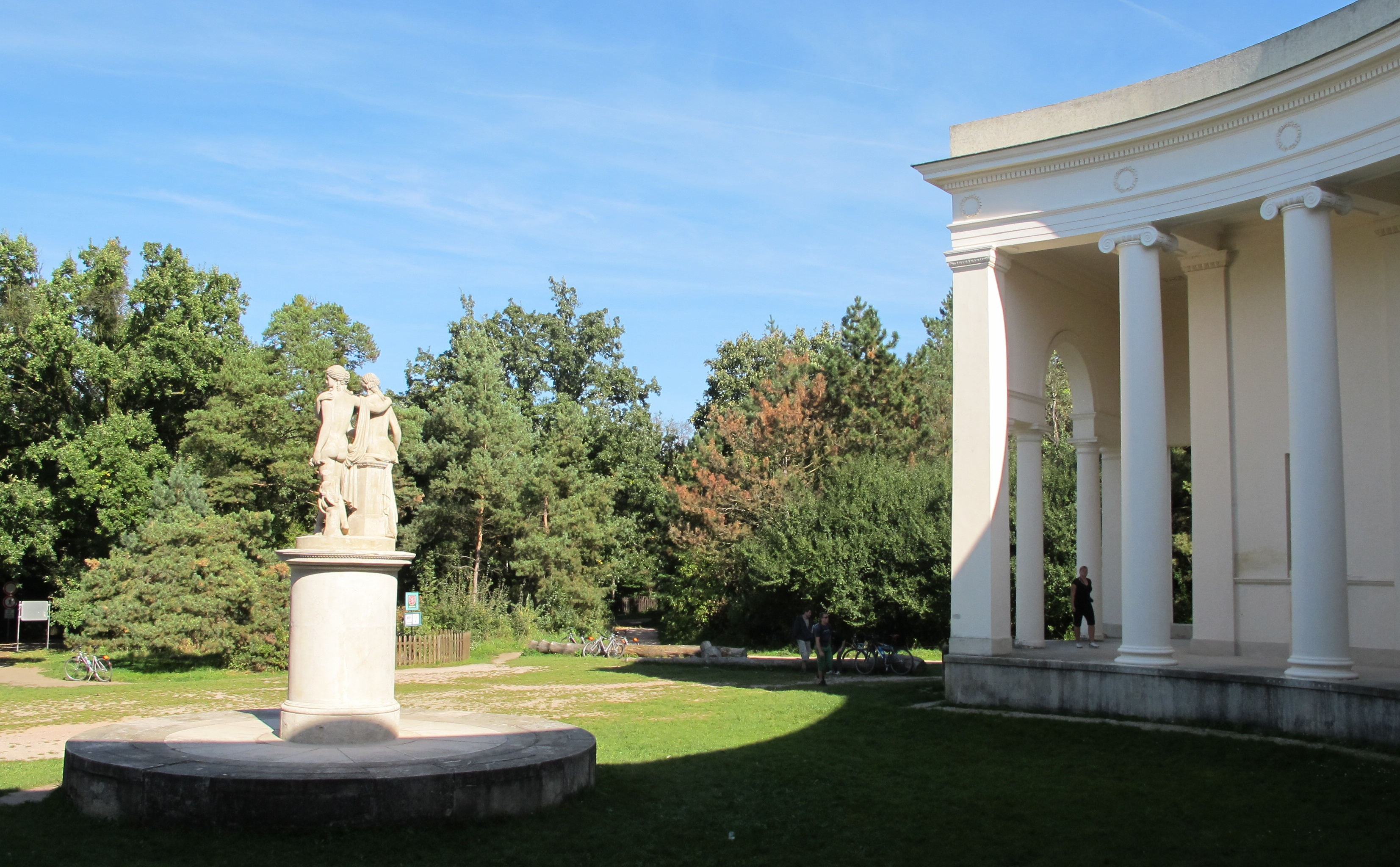 Temple of the Three Graces in Lednice–Valtice Cultural Landscape, Břeclav District